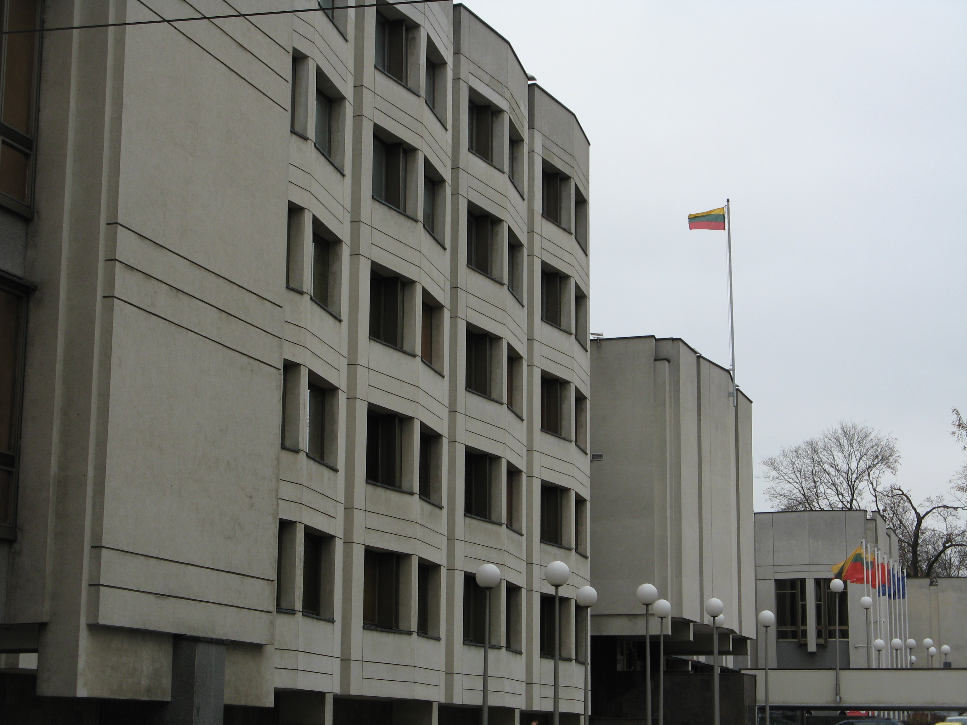 Lithuanian Government building in Vilnius